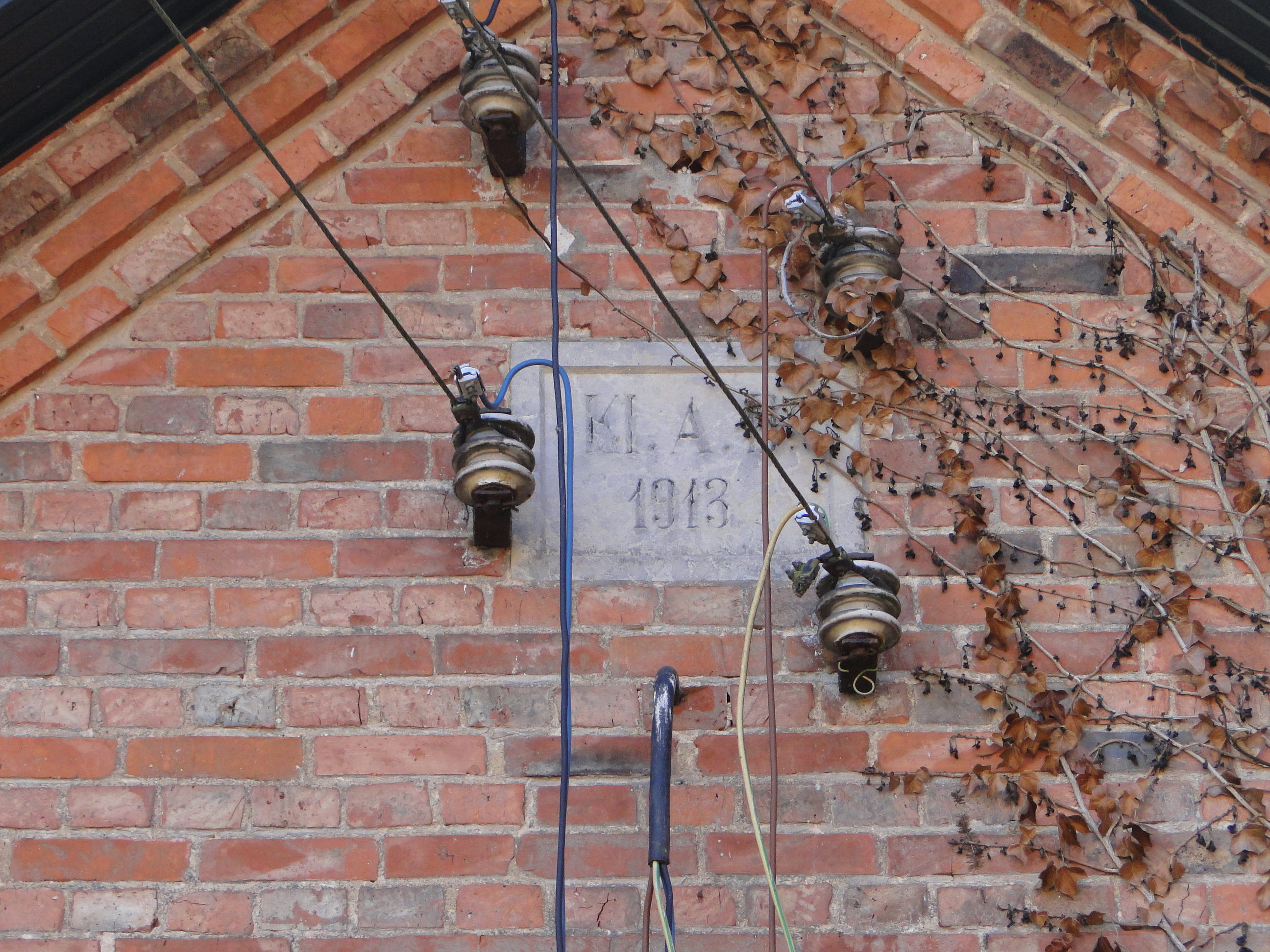 Inscription "Klosteramt Dobbertin 1913" at a building in Bossow, district Güstrow, Mecklenburg-Vorpommern, Germany